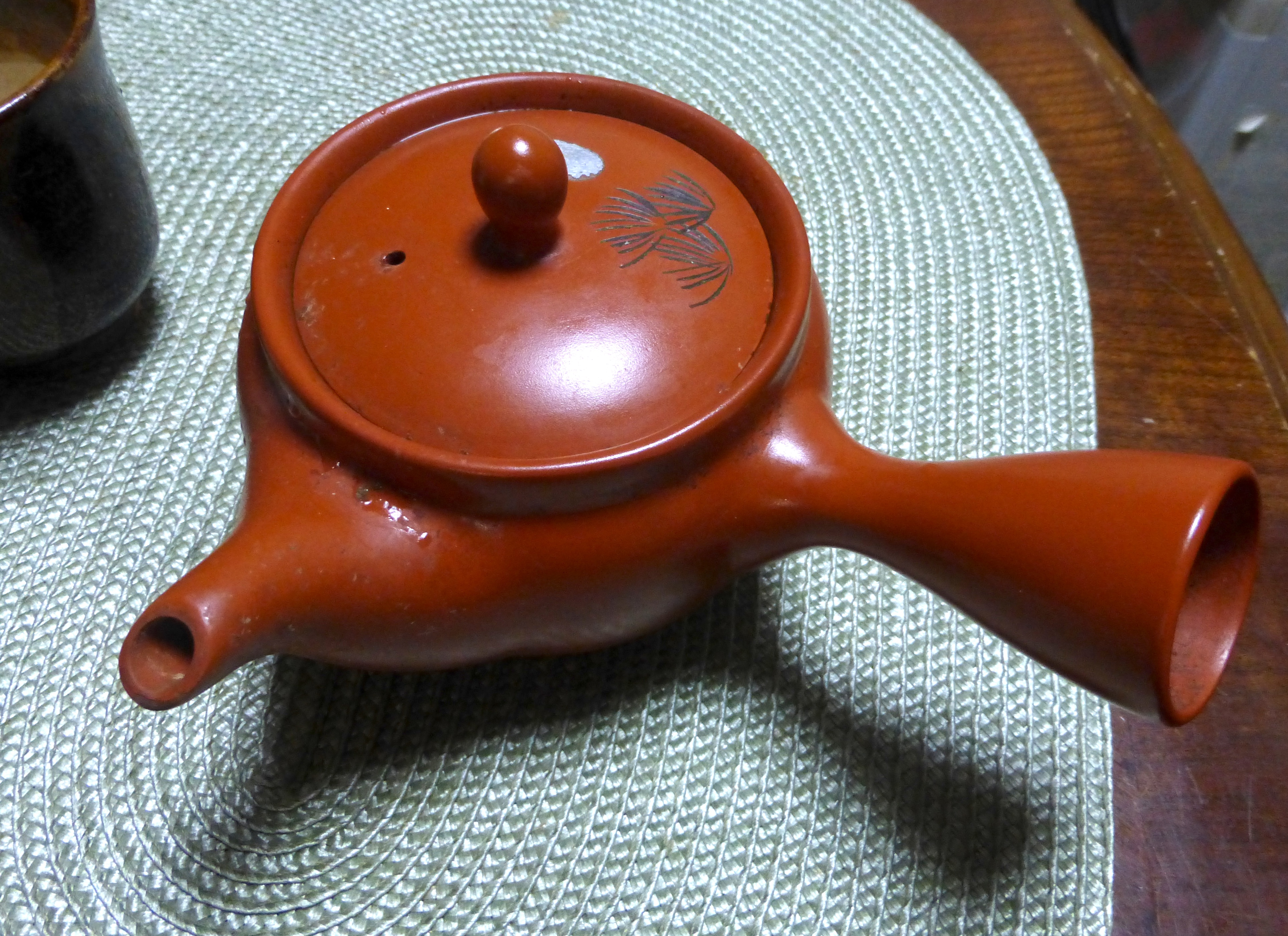 Kyusu (traditional Japanese teapot)